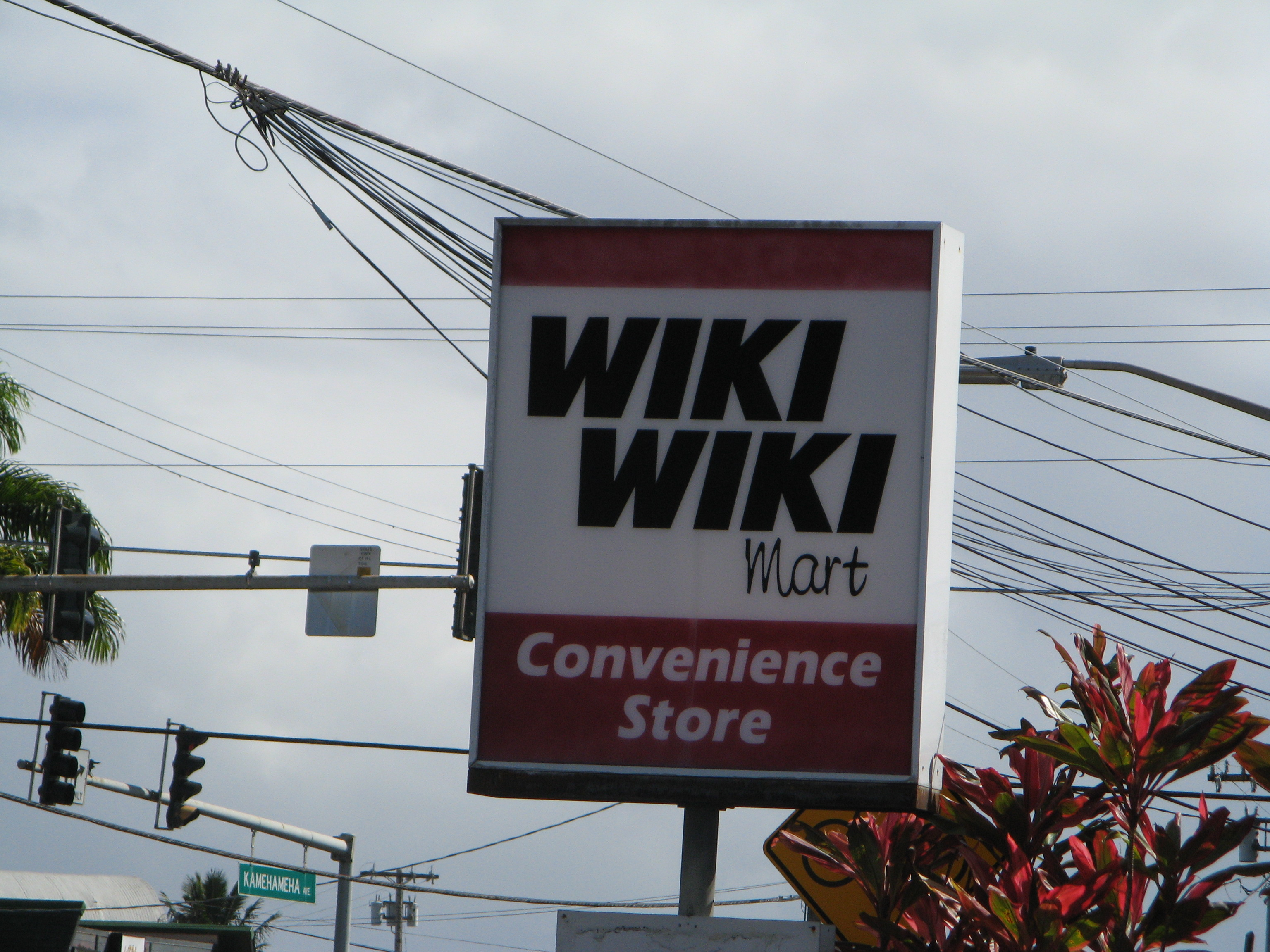 Wiki Wiki Mart, Convenience Store on Hawaii. ("The mart anyone can edit"")